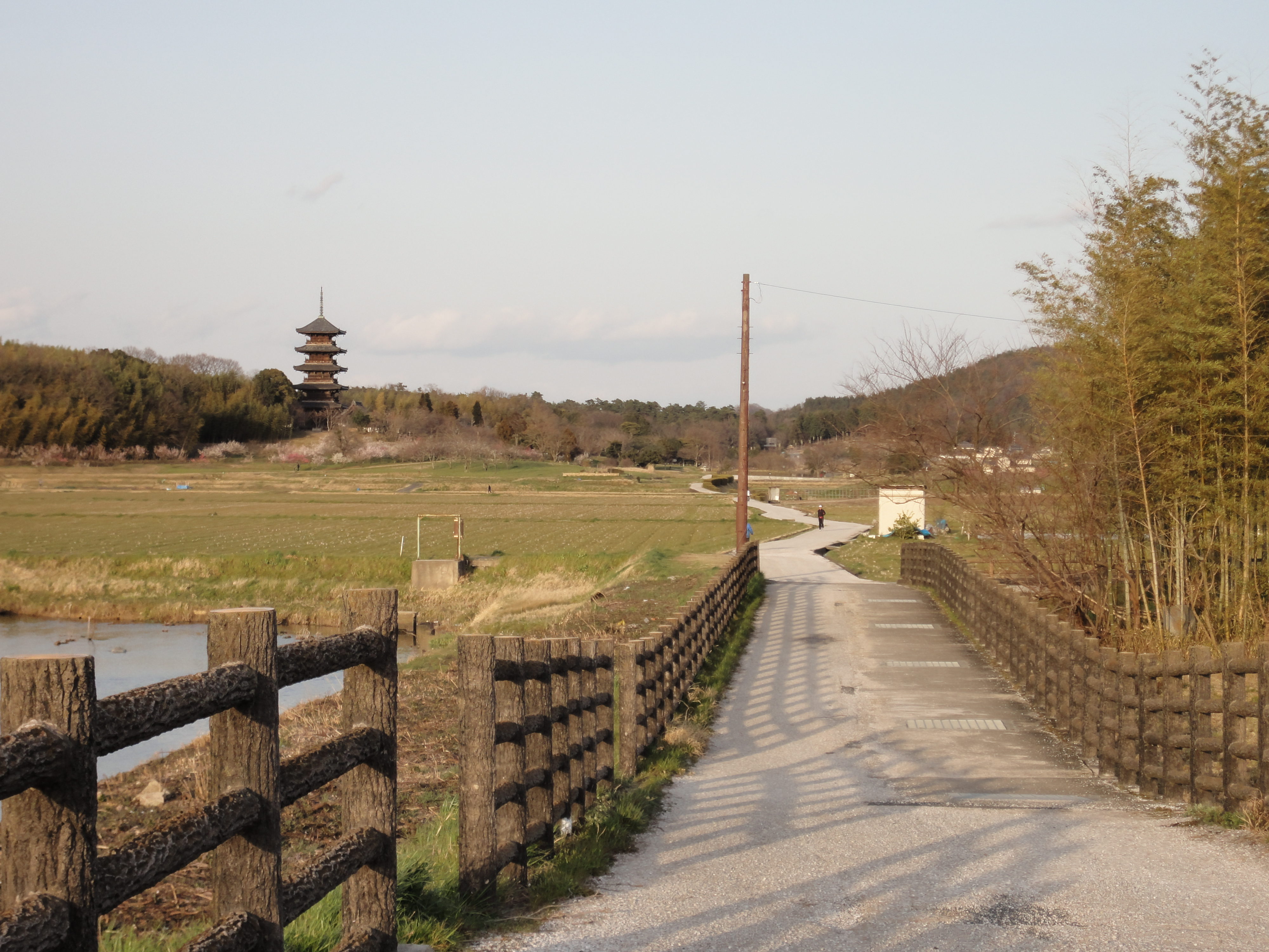 Kibiji cycling road, Soja, Okayama pref., Japan.